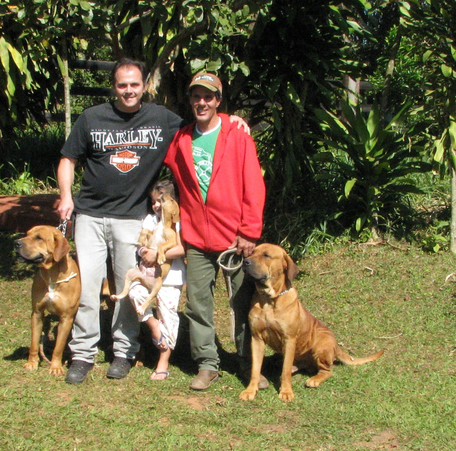 Bullmastiff Brasileiro